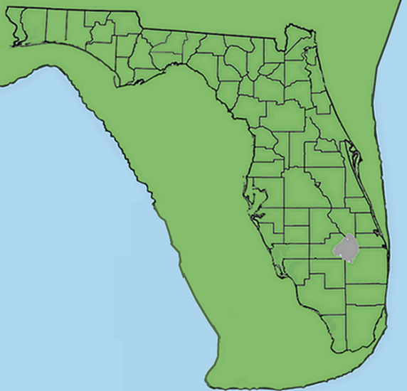 Florida 2.5 million years ago (Pleistocene) based on USGS maps and those from U. of Florida Geology